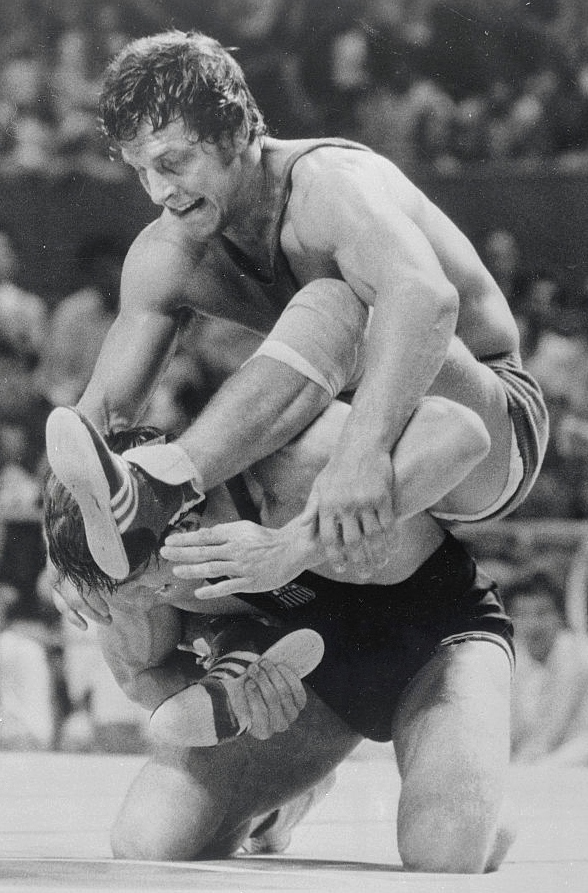 1976 Press Photo Ben Peterson and Horst Stottmeister wrestling in Olympics